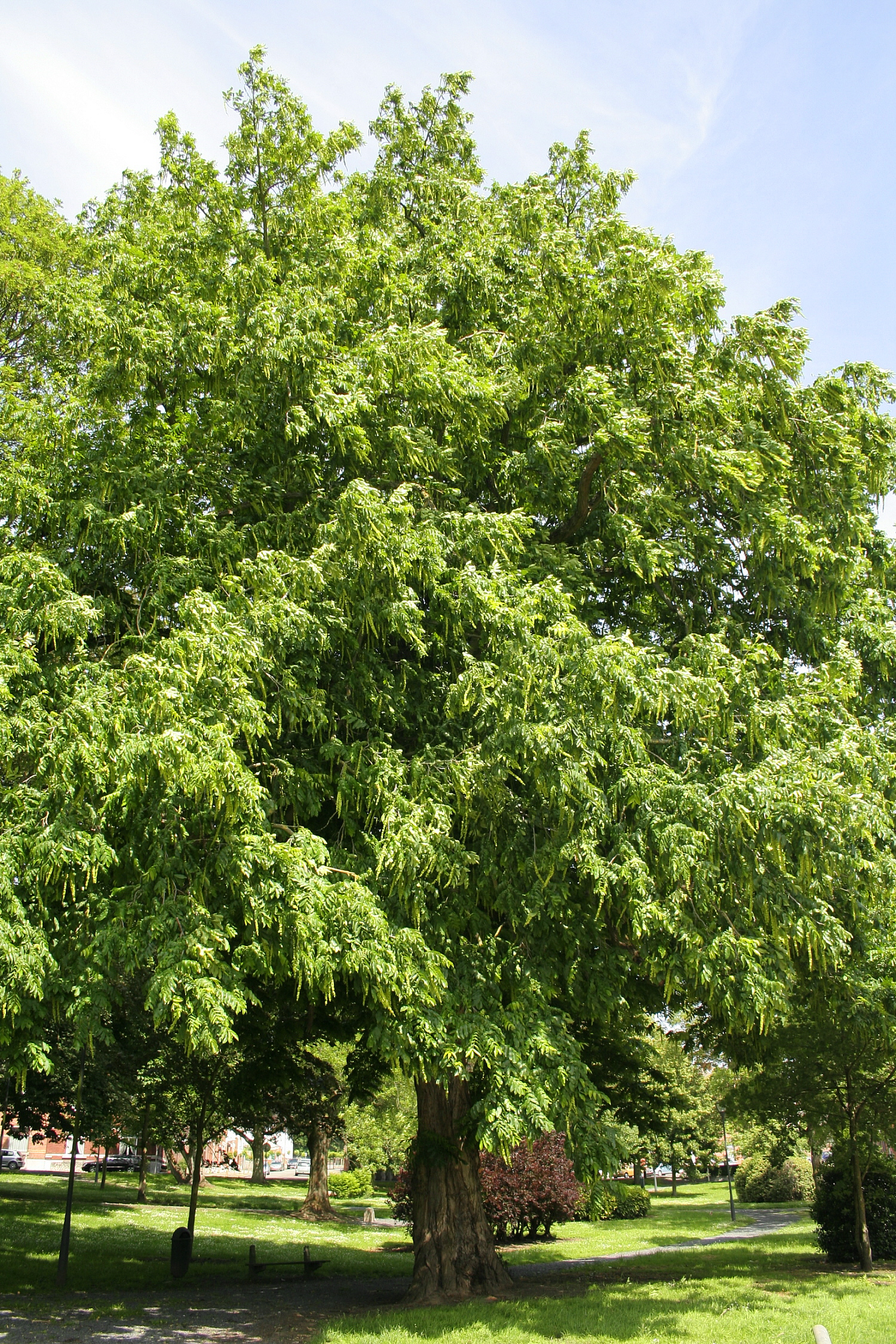 Caucasian Wing-Nut seeds